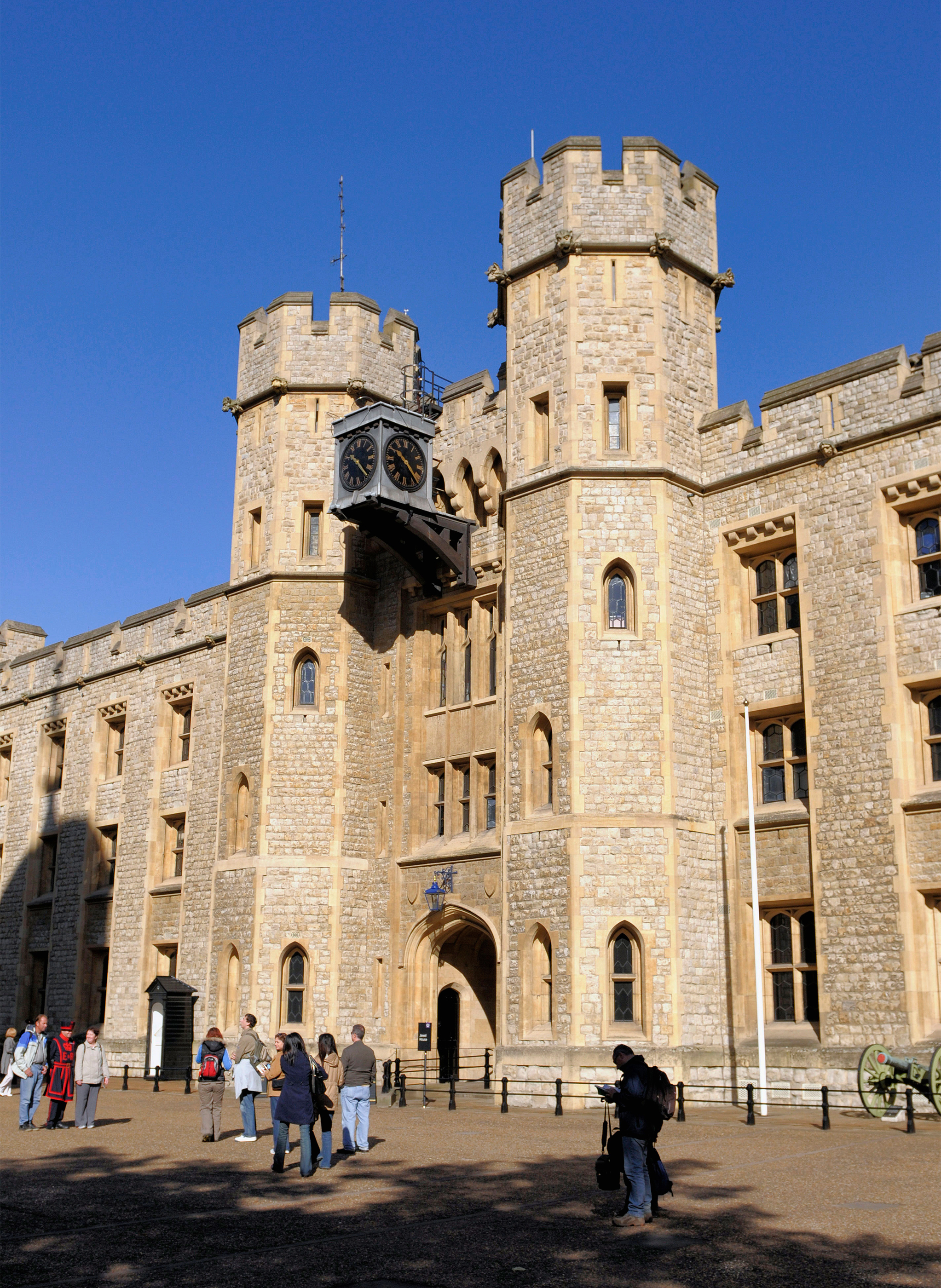 Main entrance of the Waterloo Block, Tower of London, England.